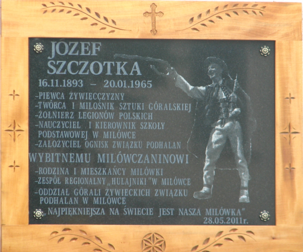 A plaque commemorating Józef Szczotka, a Polish poet and activist, located in Milówka